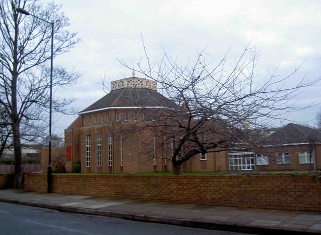 St. Peter-in-chains church, Doncaster Chequers Road.